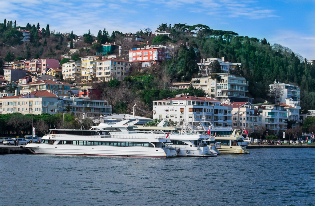 Istanbul, Ortaköy, Bebek